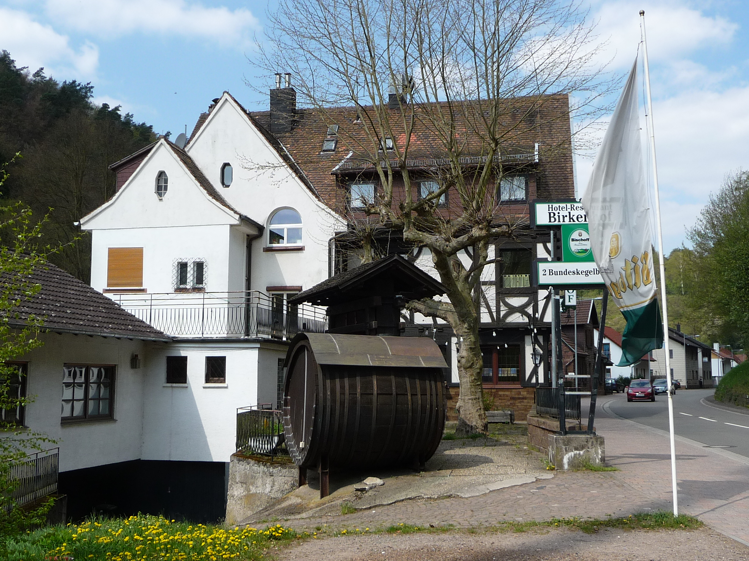 Weidenthal